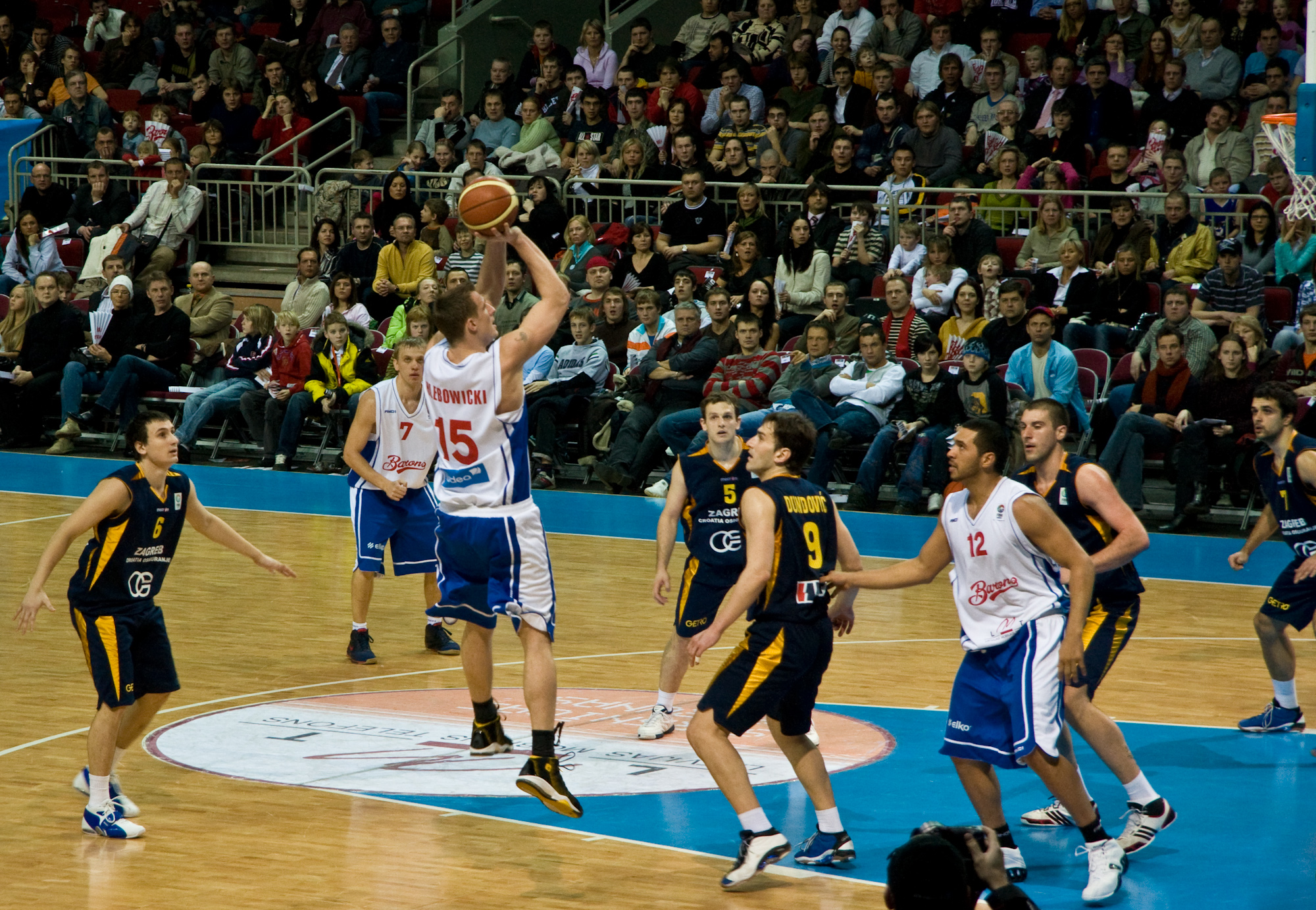 FIBA Cup basketball match KK Zagreb - BK Barons in Arena Riga